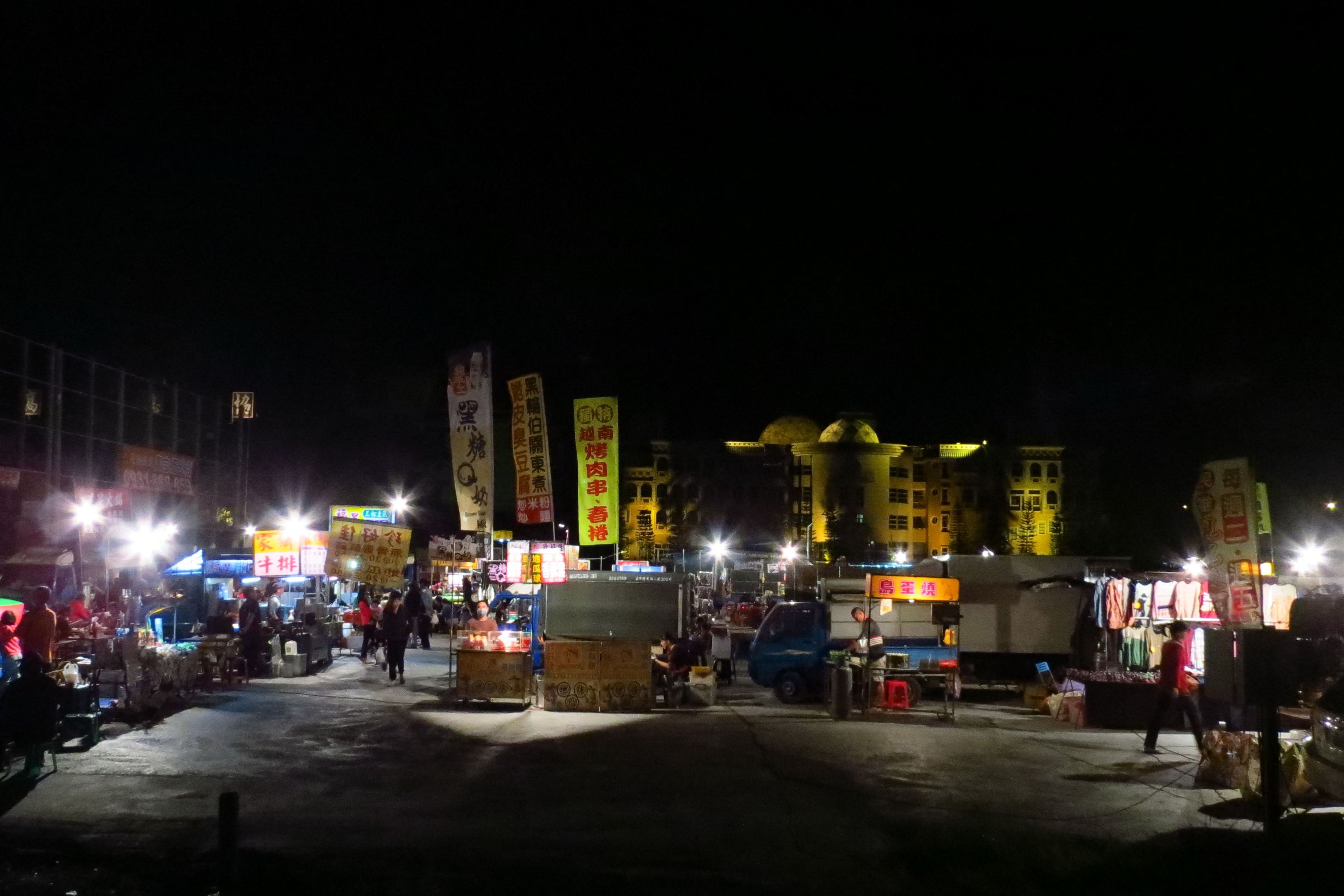 Minxiong Night Market, Minxiong, Chiayi, Taiwan.